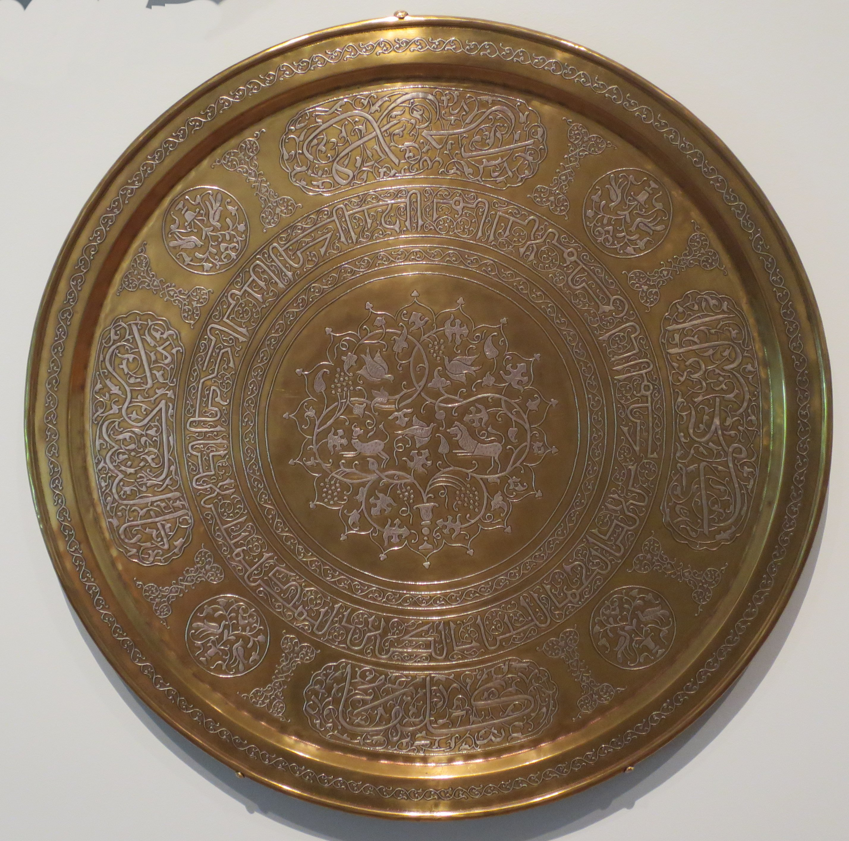 Brass tray inlaid with silver, Egypt or Syria, 19th century, Honolulu Museum of Art (long-term loan from the Doris Duke Foundation for Islamic Art)